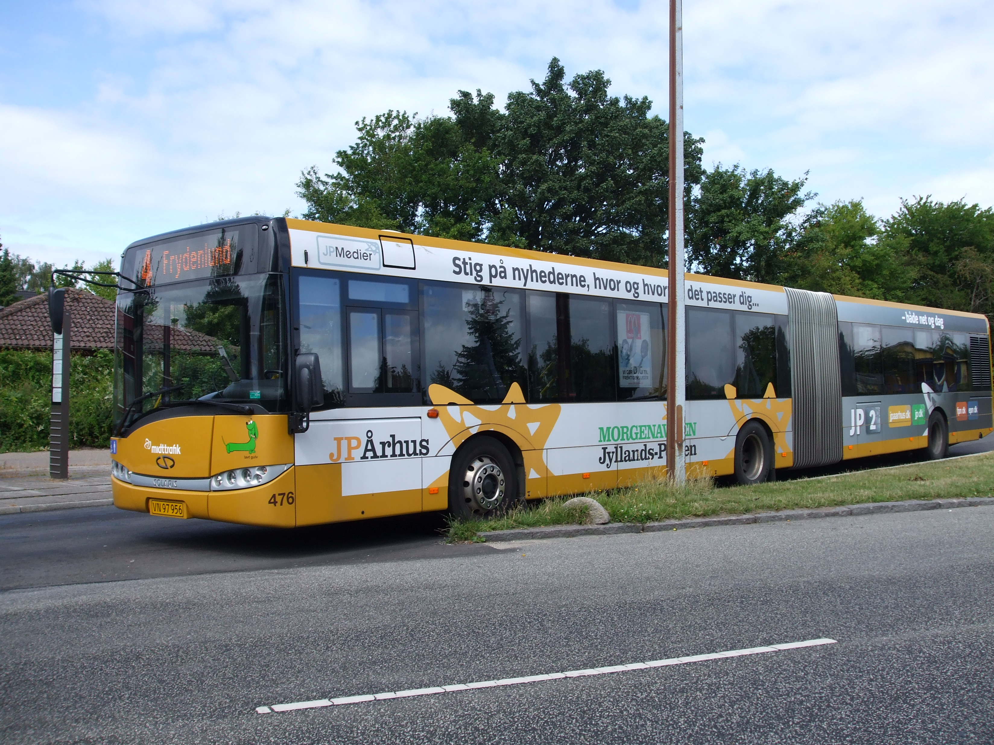 Solaris Urbino 18 Mk3 bus (#476, reg. VN 97956) in Århus, Denmark. Built 2007, BAS Aarhus operator.